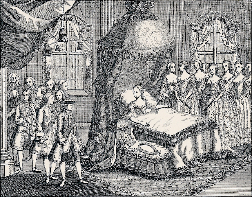 Birth of Frederik 6th of Denmark-Norway. Son of Christian 7th. His mother Caroline Mathilde born in 1768.